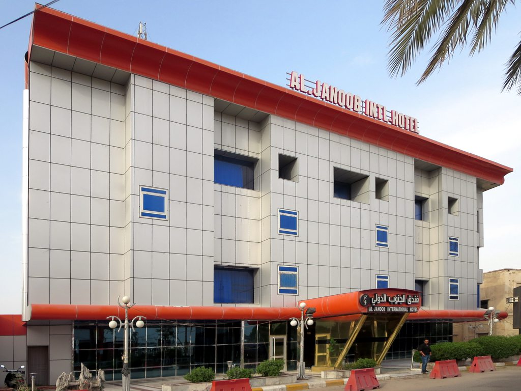 Al Janoob International Hotel in Nasiriyah City